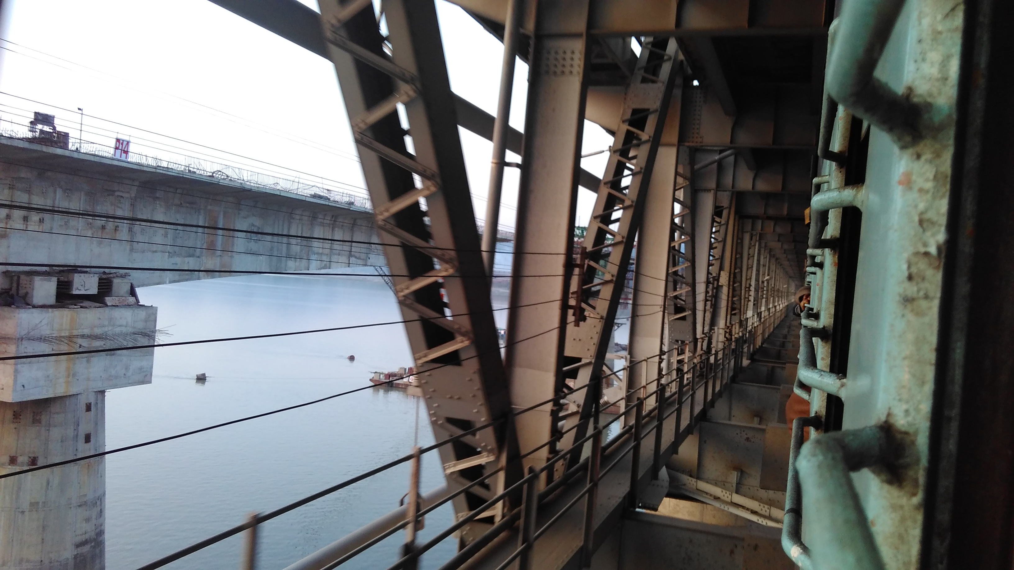 Saraighat bridge